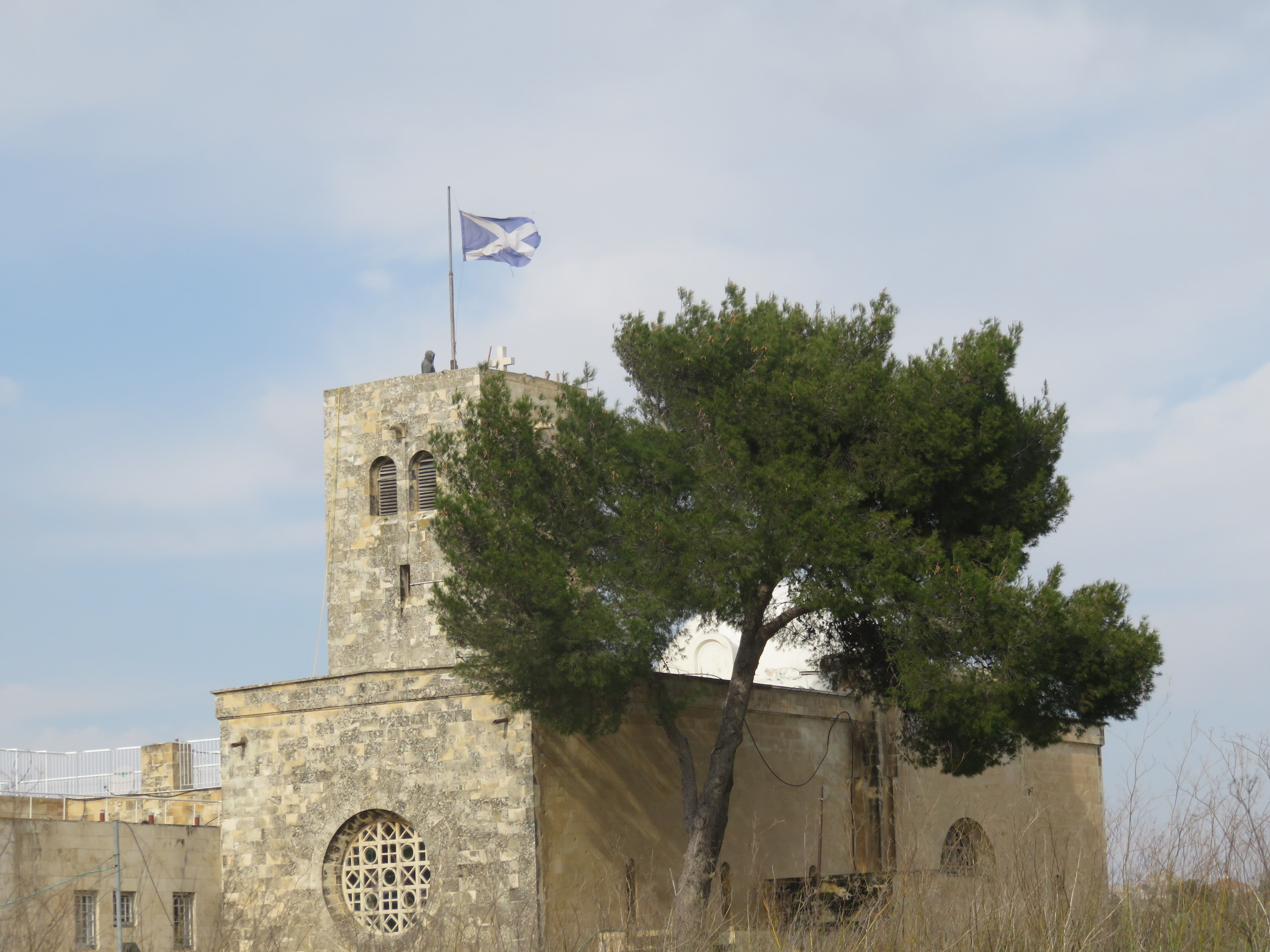 Scottish Flag on St. Andrew's church Jerusalem